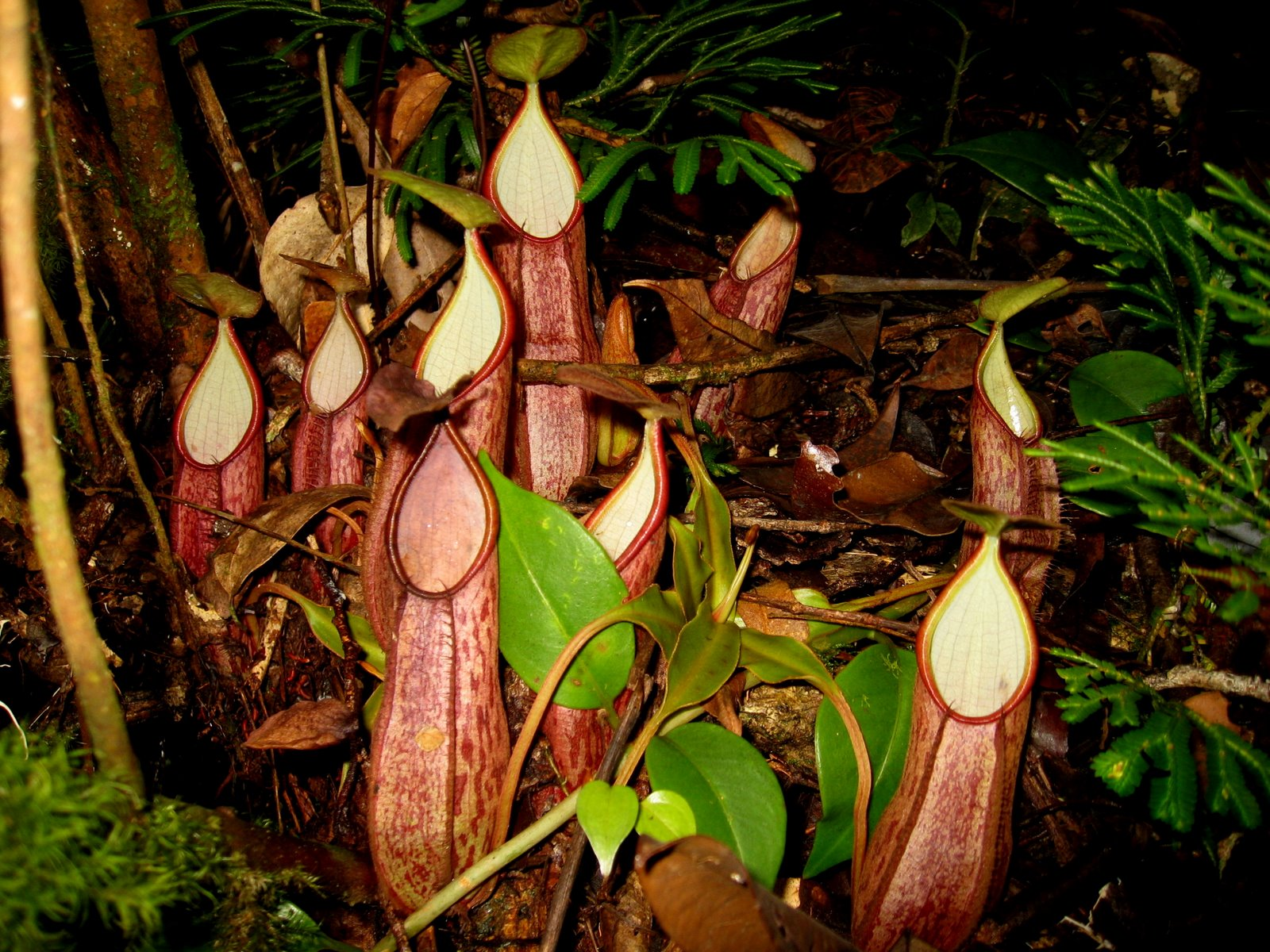 Nepenthes gymnamphora, Sumatra